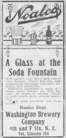 Nealco Avertisement - Washington Brewery Company